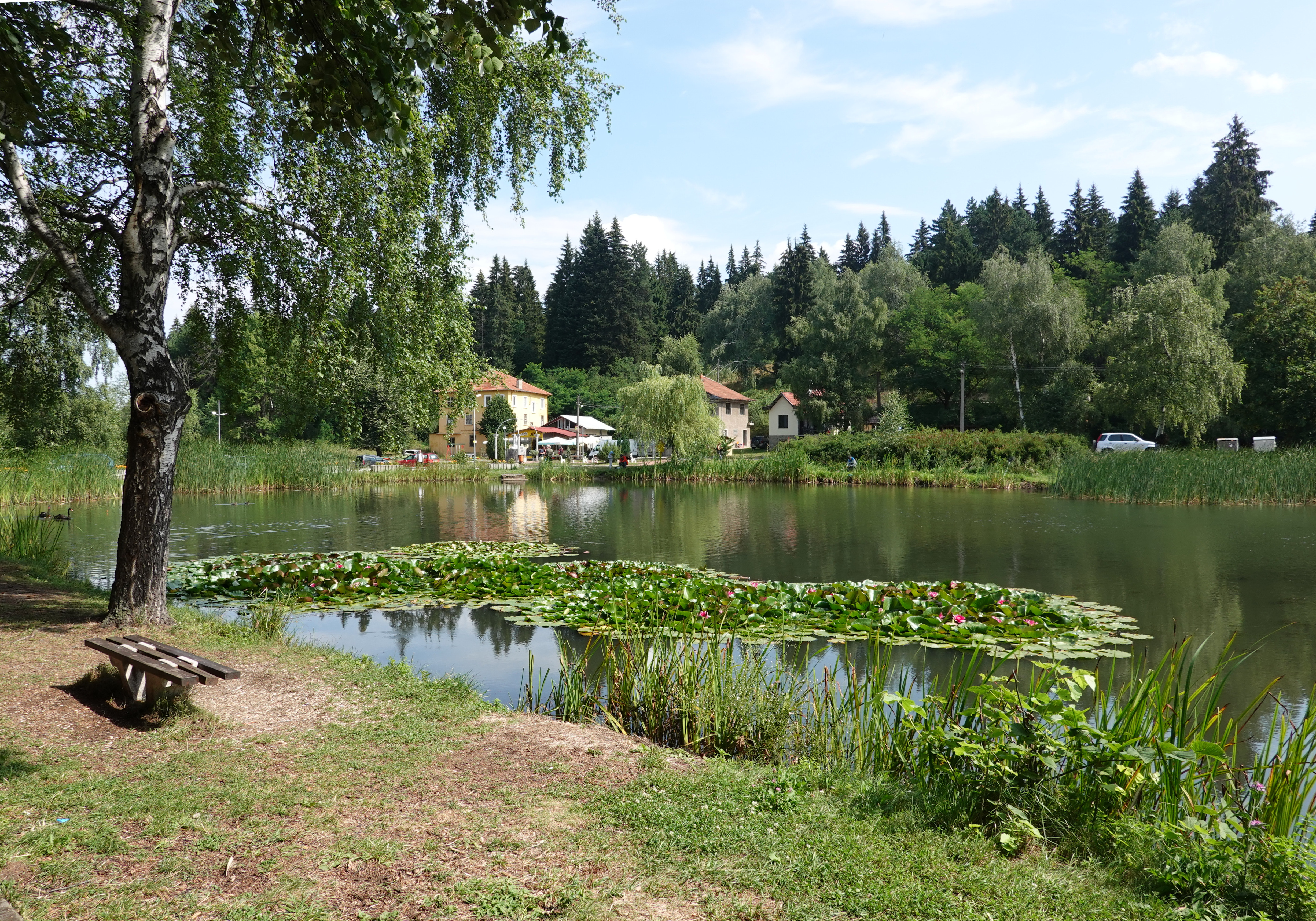 The lake in the center of the mountain resort Panagyurski kolonii, Bulgaria. Photo: Evgeniy Yurukov